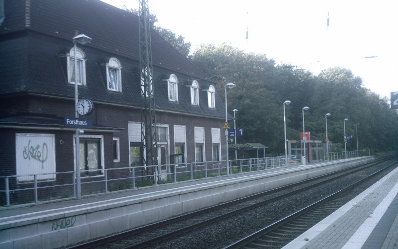 Railway Station "Forsthaus", Krefeld, Germany